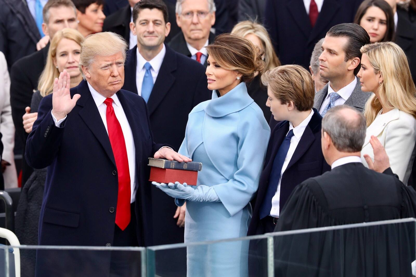 President Donald Trump being sworn in on January 20, 2017 at the U.S. Capitol building in Washington, D.C. Melania Trump wears a sky-blue cashmere Ralph Lauren ensemble. He holds his left hand on two versions of the Bible, one childhood Bible given to him by his mother, along with Abraham Lincoln’s Bible. Jonathan Adams (2017-01-20). Donald Trump’s Inauguration Bible: What Bible Is Donald Trump Using to Get Sworn in Today?. .